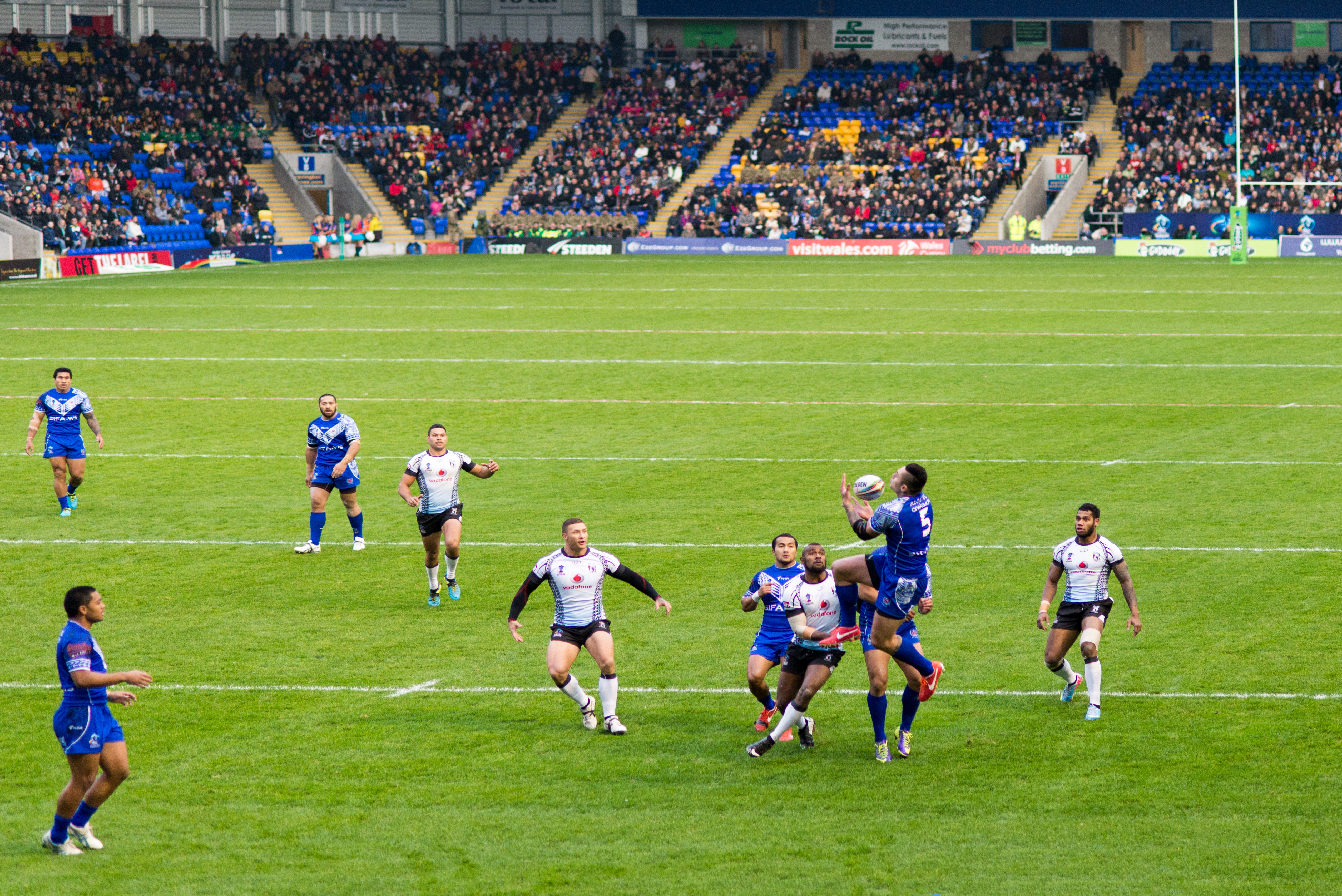 2013 Rugby League World Cup match between Samoa and Fiji at Halliwell Jones Stadium in Warrington.